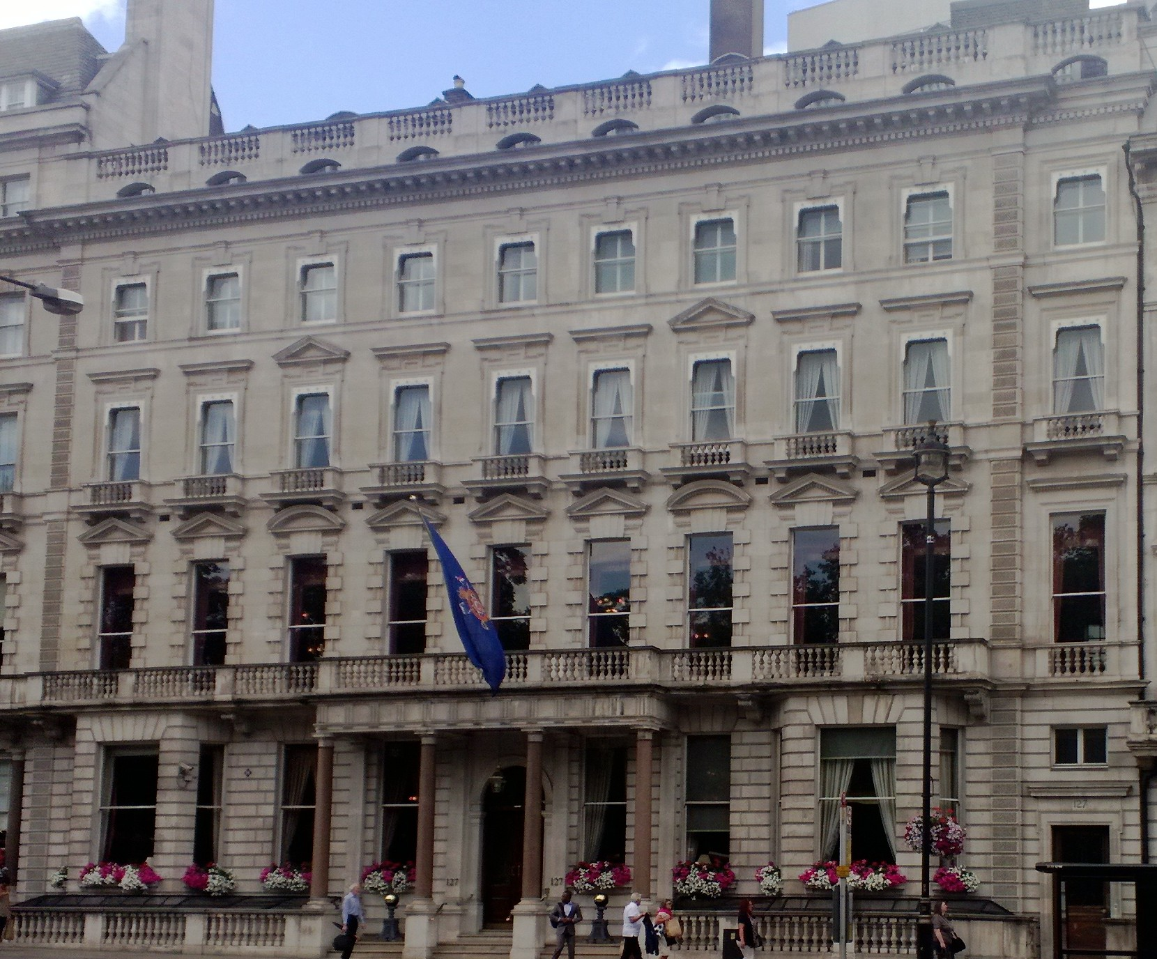 Gentlemen's club in Piccadilly, central London.